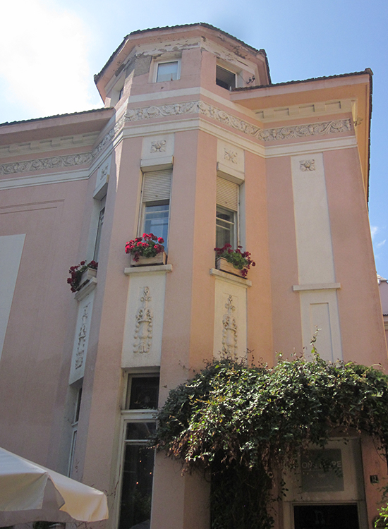 The House of Gubidelnikov, 12 Tsar Shishman str., arch. Dimo Nitschev